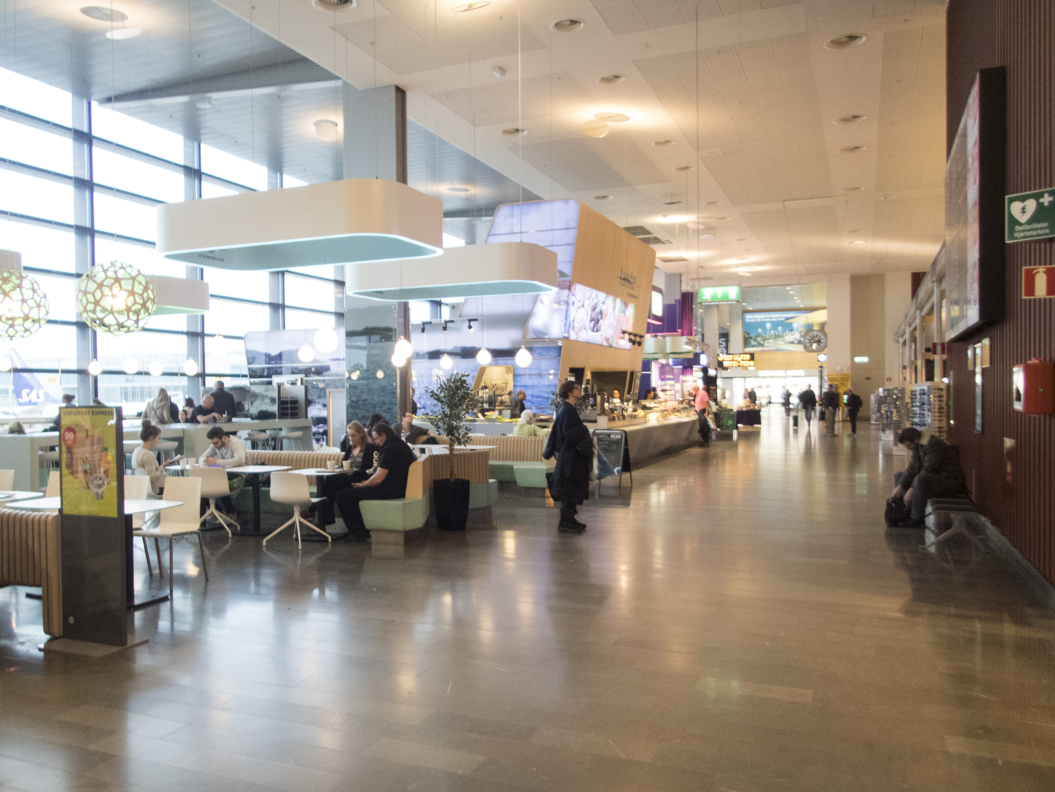 Arlanda Terminal 5